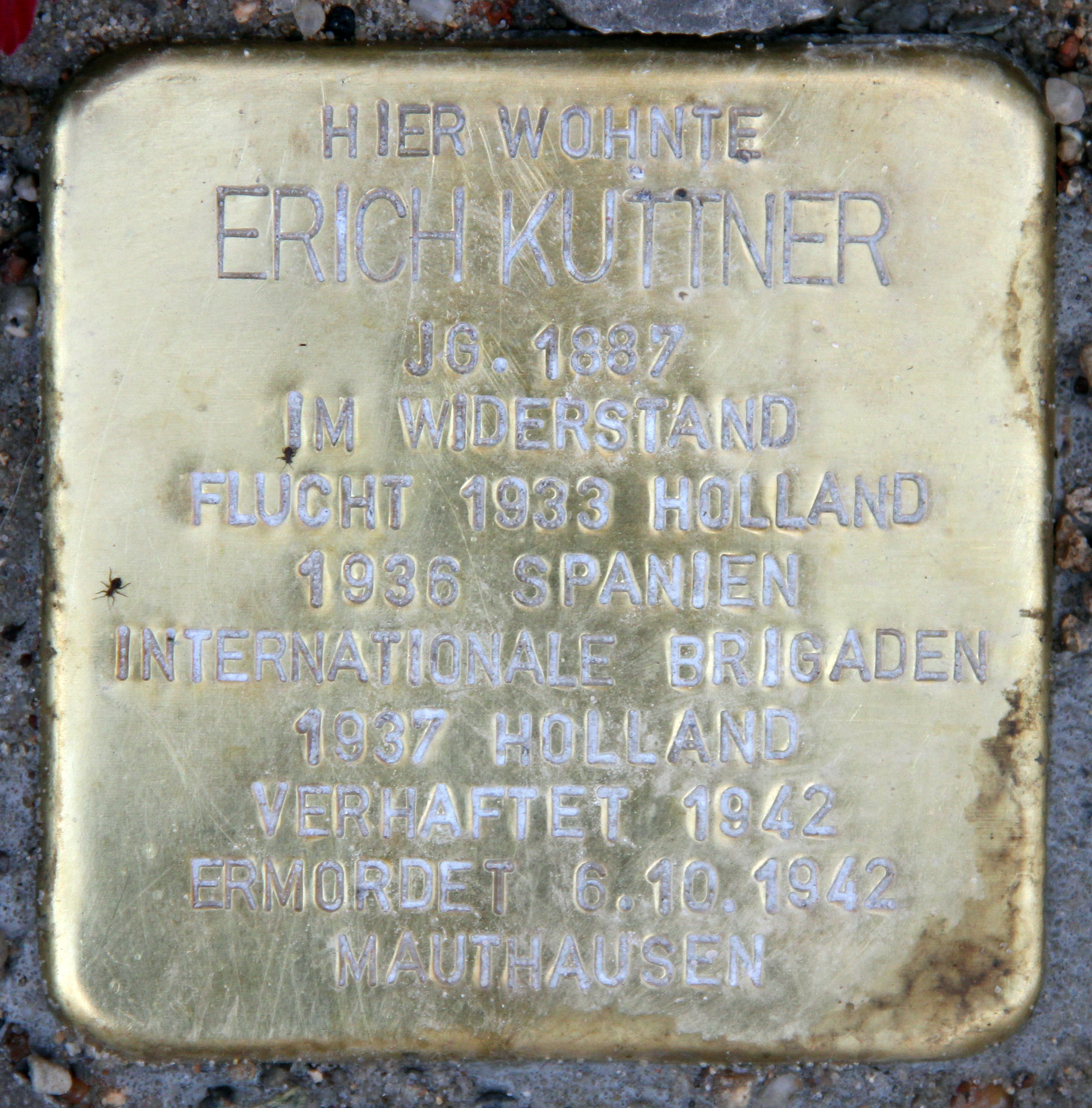 "stumbling block", Erich Kuttner, Burgherrenstraße 4, Berlin-Tempelhof, Germany Koordinate:52°29′3″N 13°22′56″E / 52.48417°N 13.38222°E